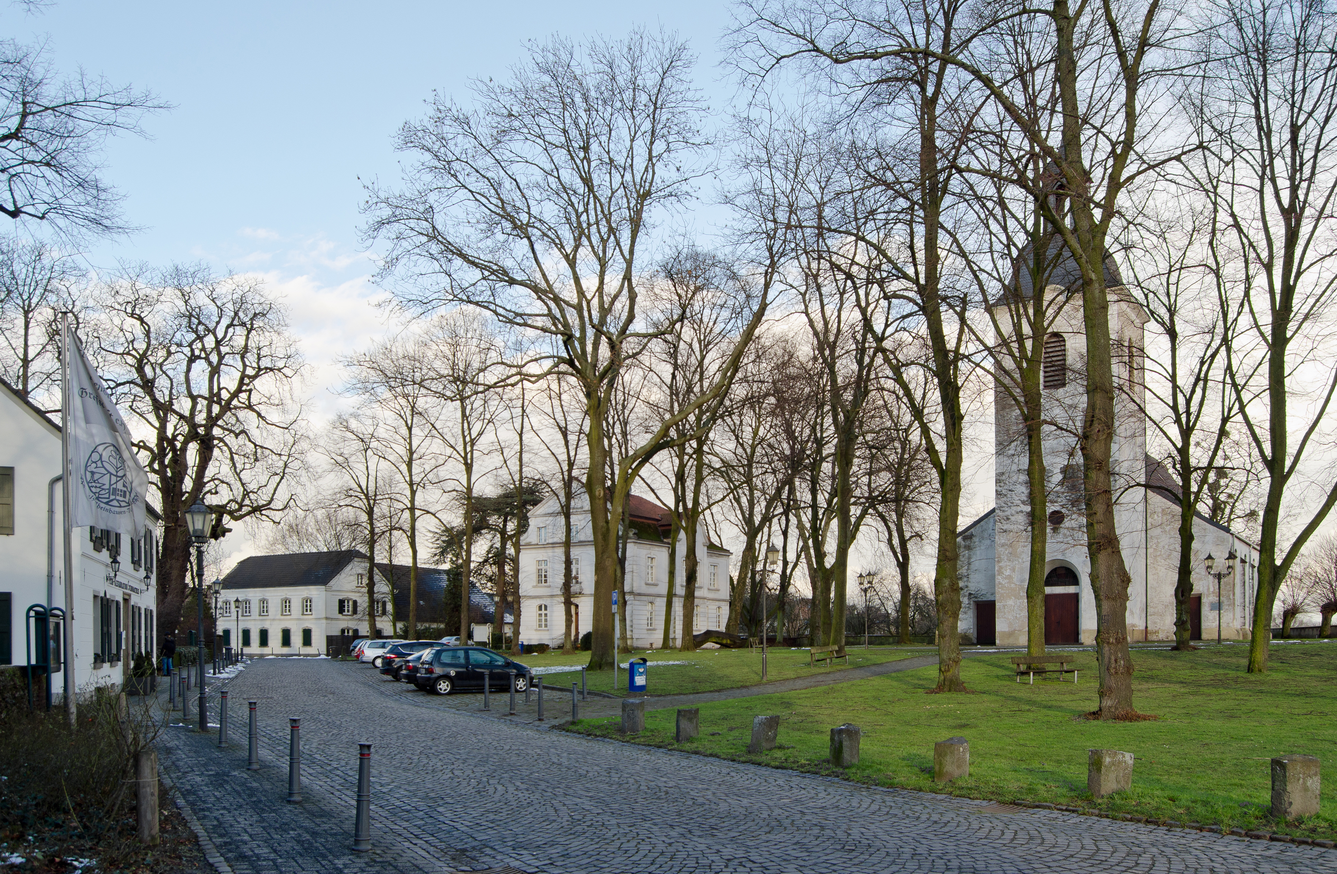 Duisburg (North Rhine-Westphalia, Germany) – borough Rheinhausen, district Friemersheim – old village center with church square This image shows a heritage building in Germany, located in the North Rhine-Westphalian city Duisburg (no. 82, 83, 241, 242). This image shows a heritage building in Germany, located in the North Rhine-Westphalian city Duisburg (heritage area no. 6)). This photograph was taken with a Nikon D7000.